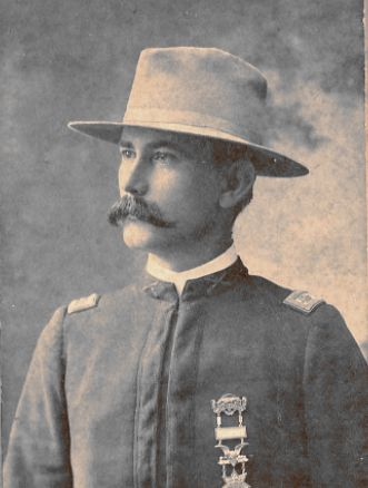 George Willrich 1861-1932 La GrangeTexas. Photo taken during Cuban War in the period 1903 until 1918, which were the years of Willrichs military service then